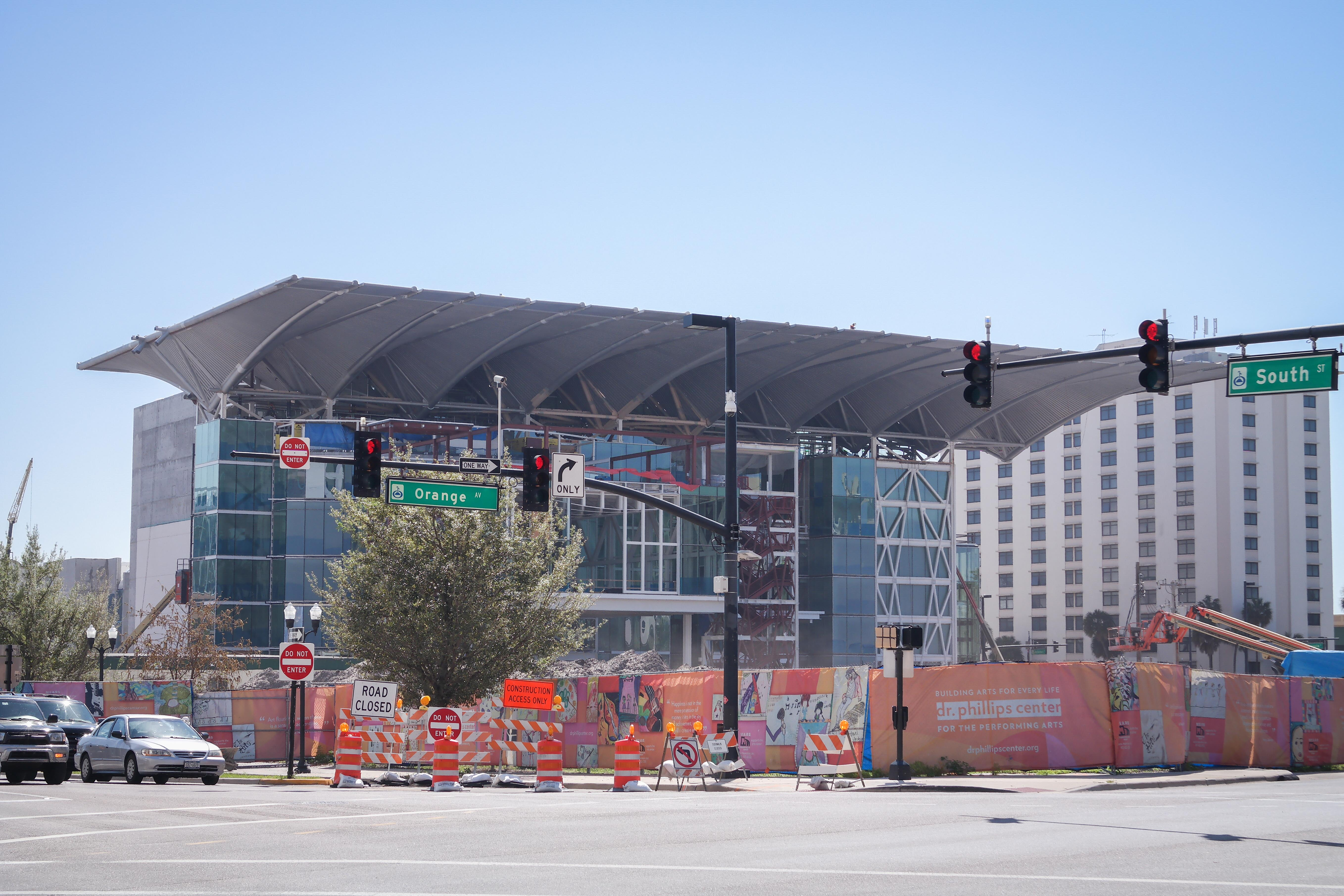 Construction nears completion at the Dr. Phillips Center for the Performing Arts in Orlando, Florida